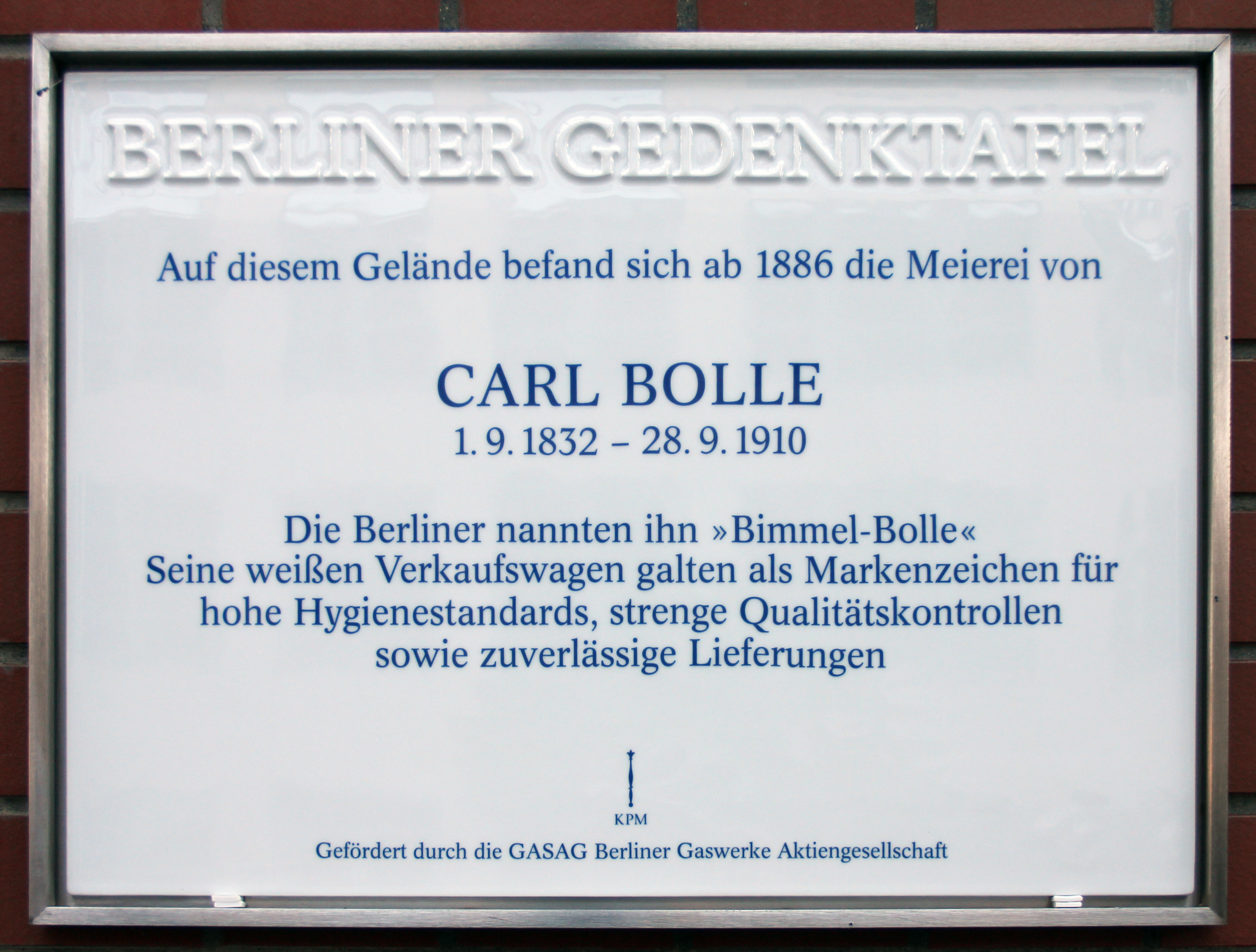 Berlin memorial plaque, Carl Andreas Julius Bolle, Alt-Moabit 98, Berlin-Moabit, Germany